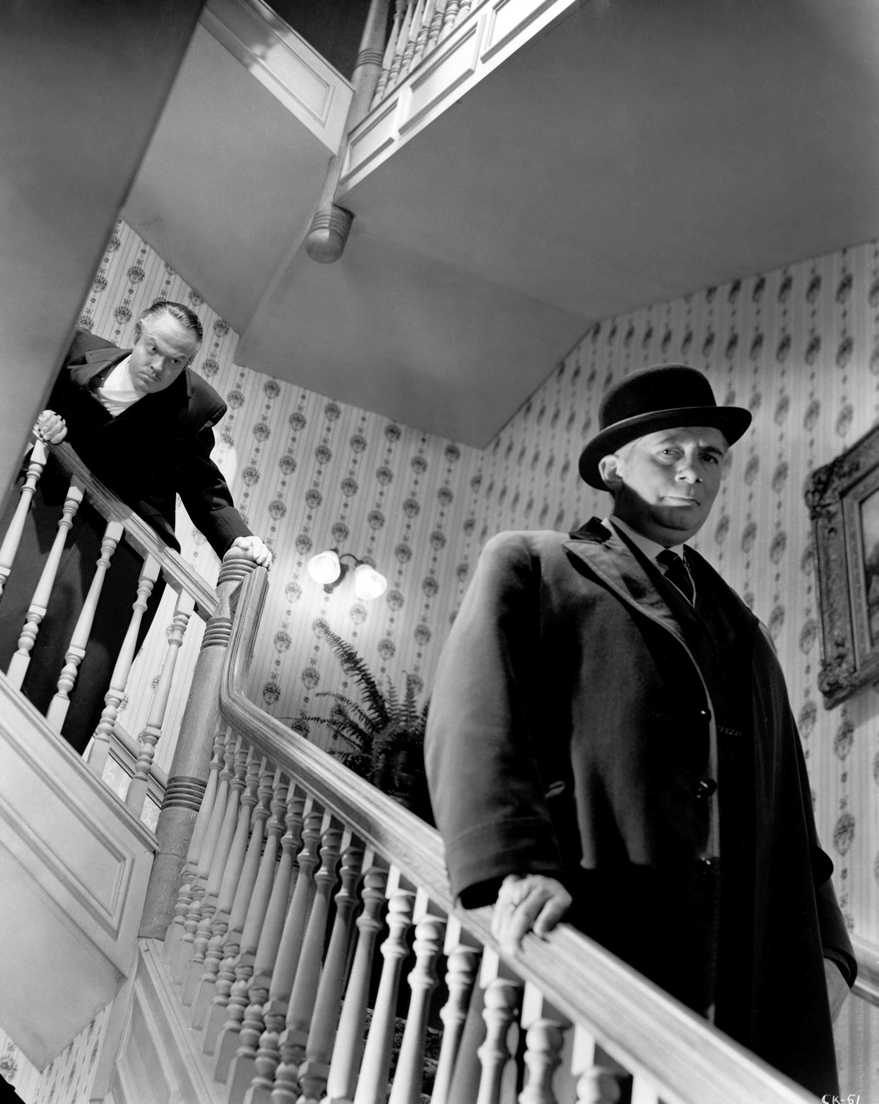 Promotional still for the 1941 film, Citizen Kane Image is marked CK-51 at lower right